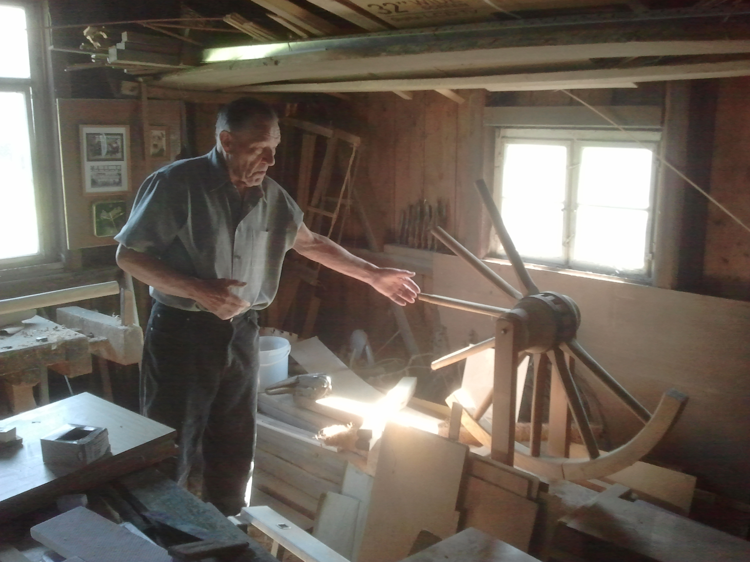 Wheelwright Gottfried Rösch building a wooden cart wheel.